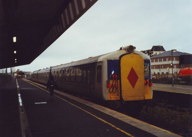 Portrush Railway Station, Ulster